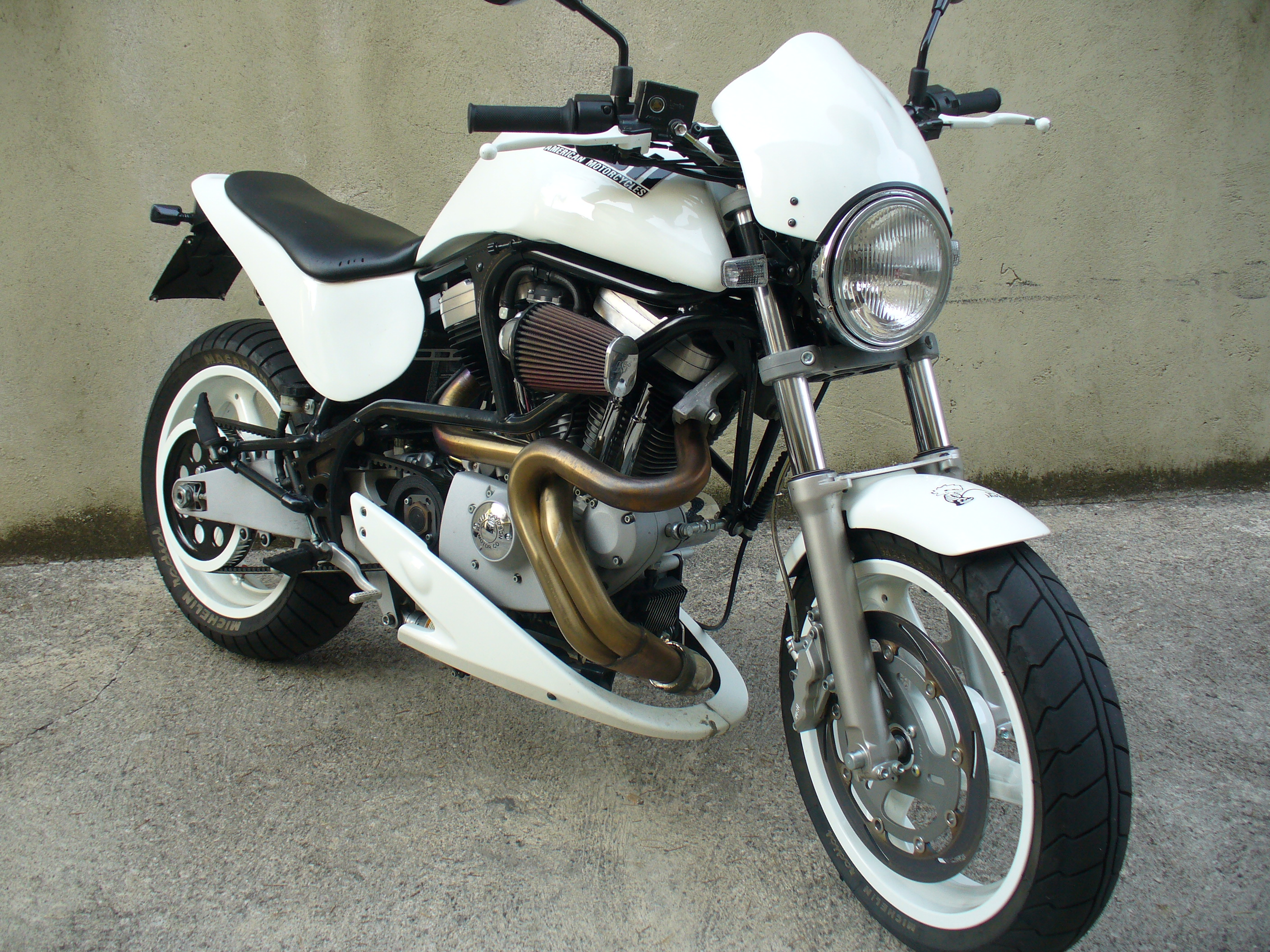 A 2000 white Buell M2 Cyclone. 3/4 front view.